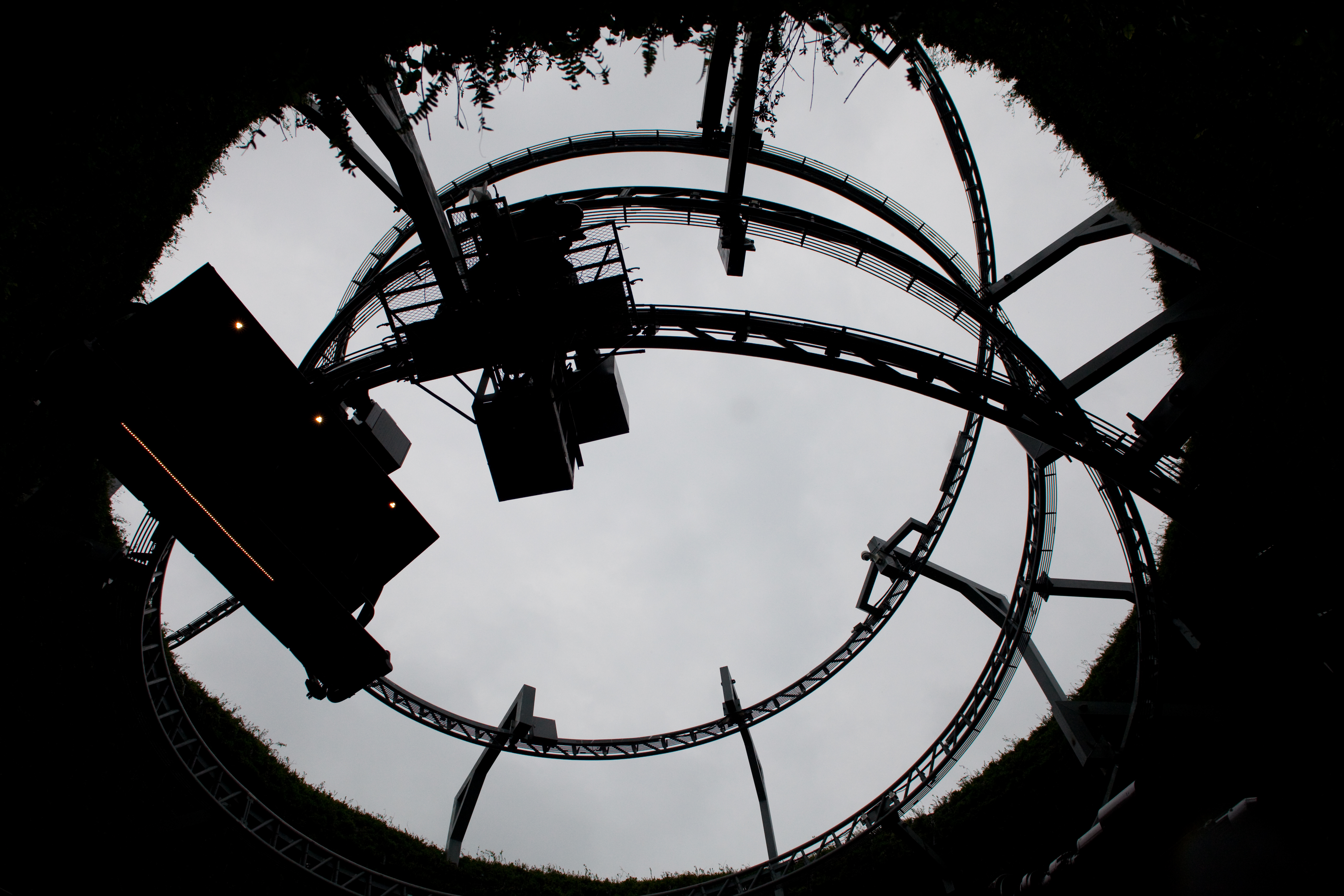 Swiss Pavilion Expo 2010 Shanghai: Double helix with chair lift in the leafy cylinder (seen from below)